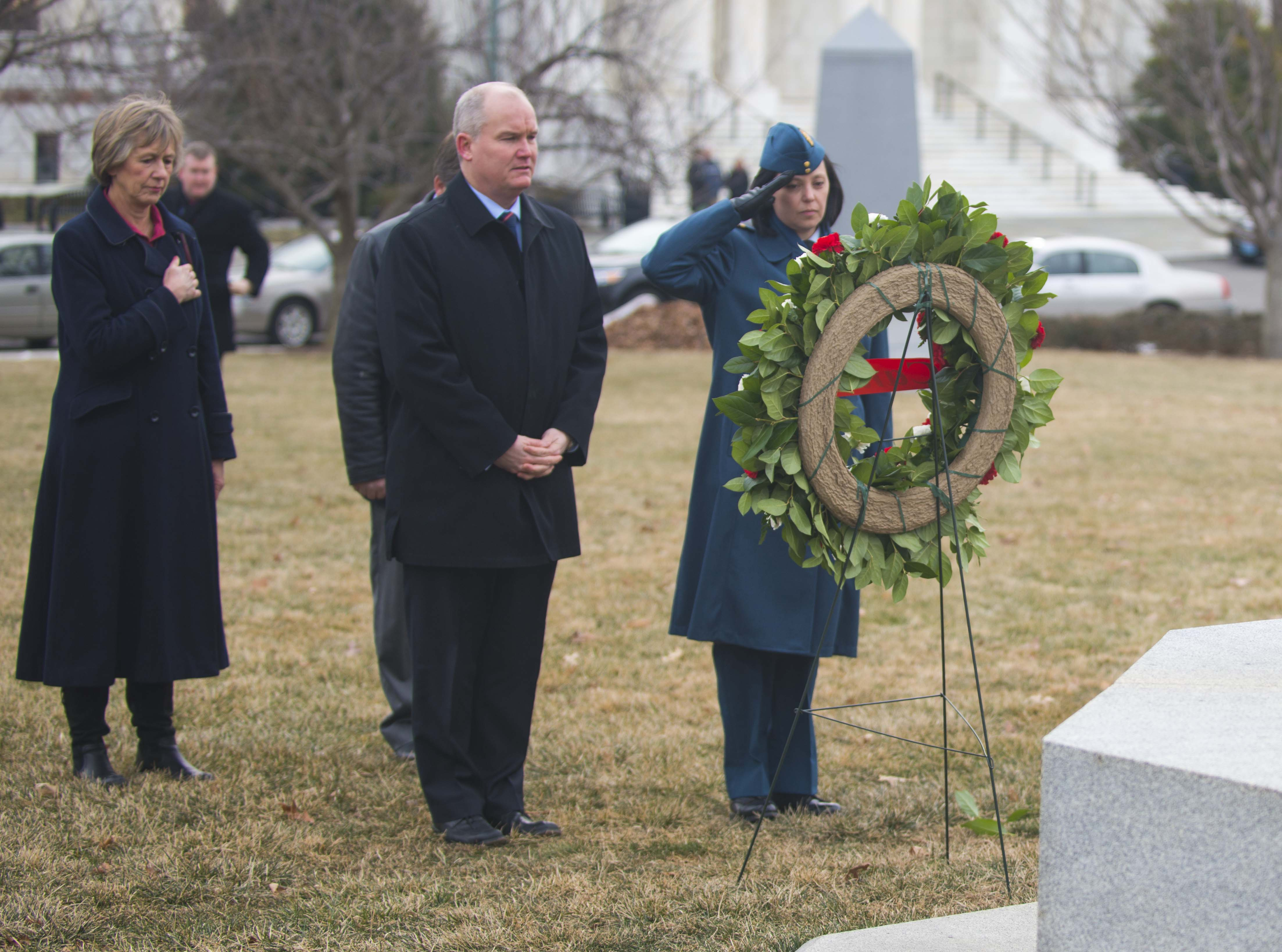 Erin O’Toole, the Canadian Minister of Veterans Affairs laid a wreath at the Canadian Cross of Sacrifice at Arlington National Cemetery on February 3, 2015. After the ceremony Mr. O'Toole is quoted as saying: “It’s an honor for me to be here as Canada’s Minister of Veterans Affairs and as a Canadian who served for 12 years in our armed forces serving alongside, training and often deploying with our American friends and allies. It is very important for us today to show respect for the fallen of your country, see the Tomb of the Unknown Soldier, the Changing of the Guard and to visit the Canadian Cross which recognizes in WWI that 3,000 Americans died fighting with Canadians as we entered the war early. Our countries have a long and rich history as neighbors, friends and allies so it is important for us to show our respect and support and Arlington National Cemetery is the place to do that.” Photograph by Stephen Smith